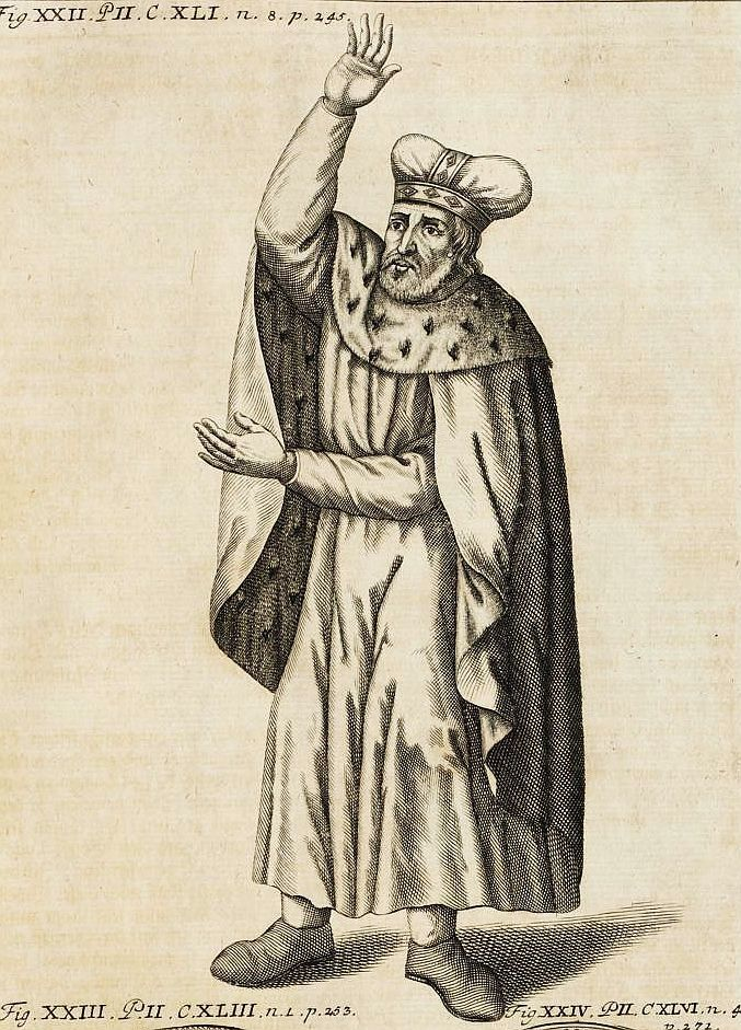 Louis I the Fair (1313/21-1398), Duke of Legnica-Brzeg